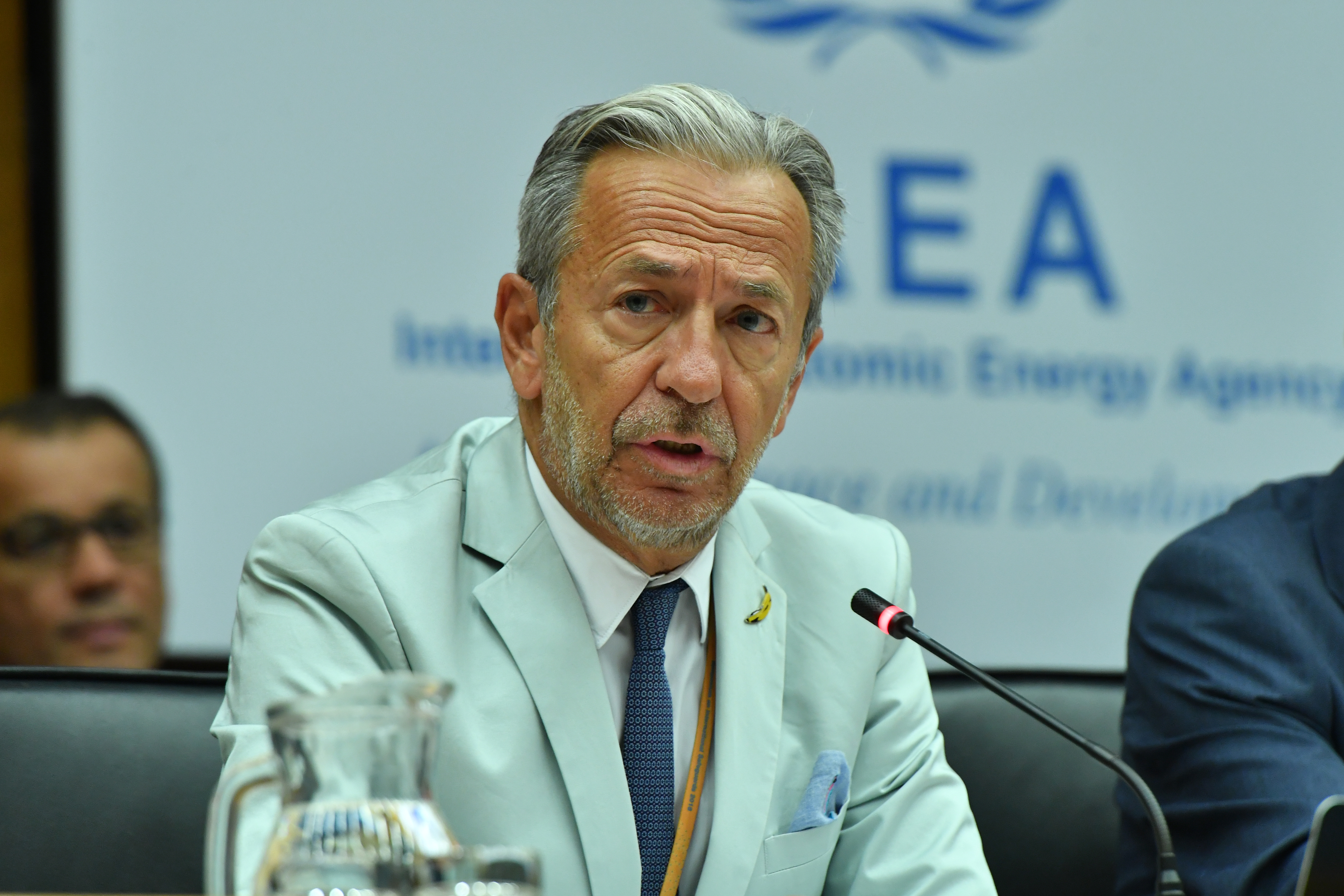 Massimo Aparo, IAEA Deputy Director General and Head of the Department of Safeguards at the Special meeting of the IAEA 1518th Board of Governors on Iran. IAEA Vienna, Austria. 10 July 2019 Photo Credit: Dean Calma / IAEA